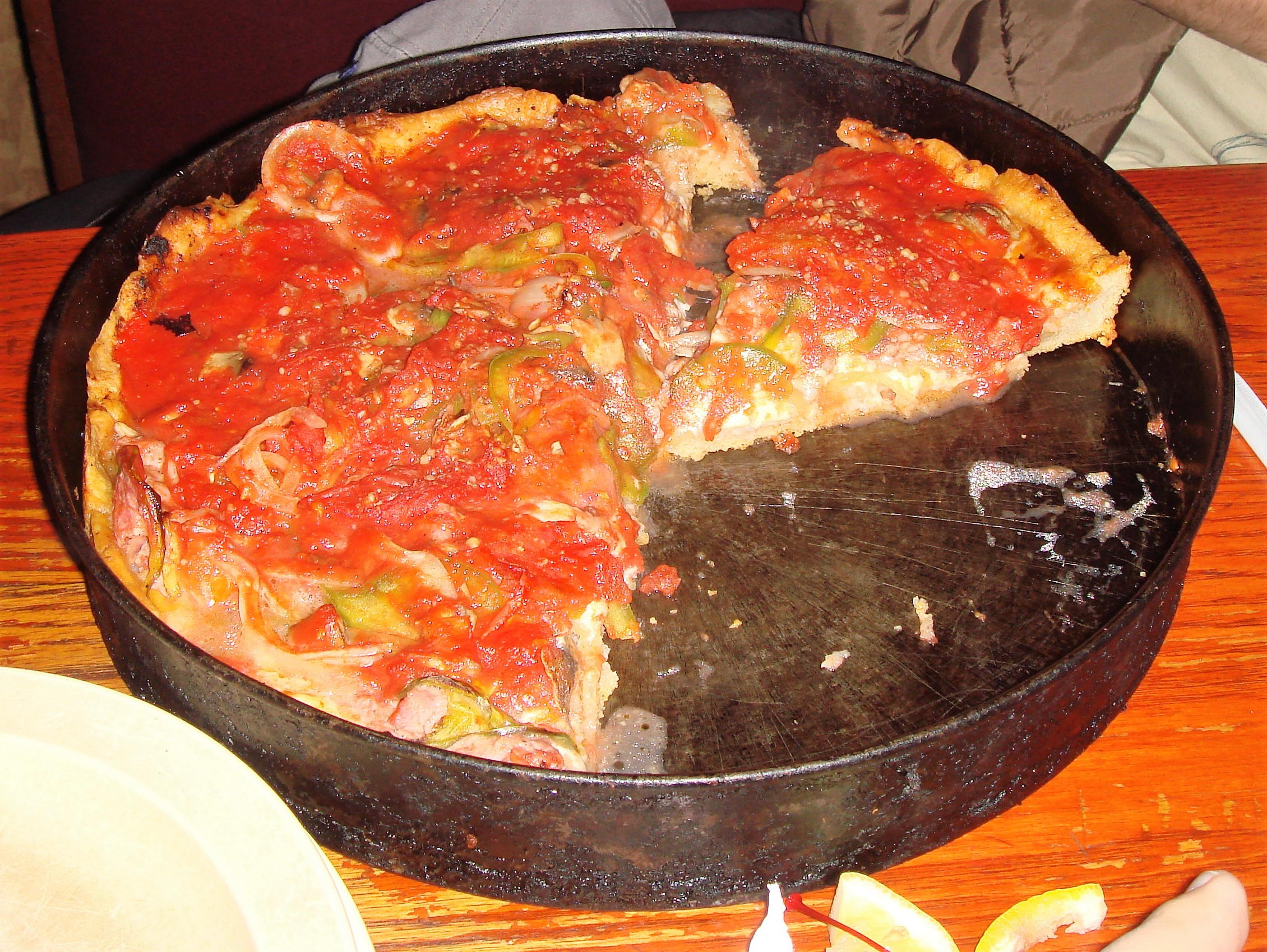 Chicago-style deep dish pizza from the original Pizzeria Uno (restaurant credited with originating the style) in Chicago, Illinois